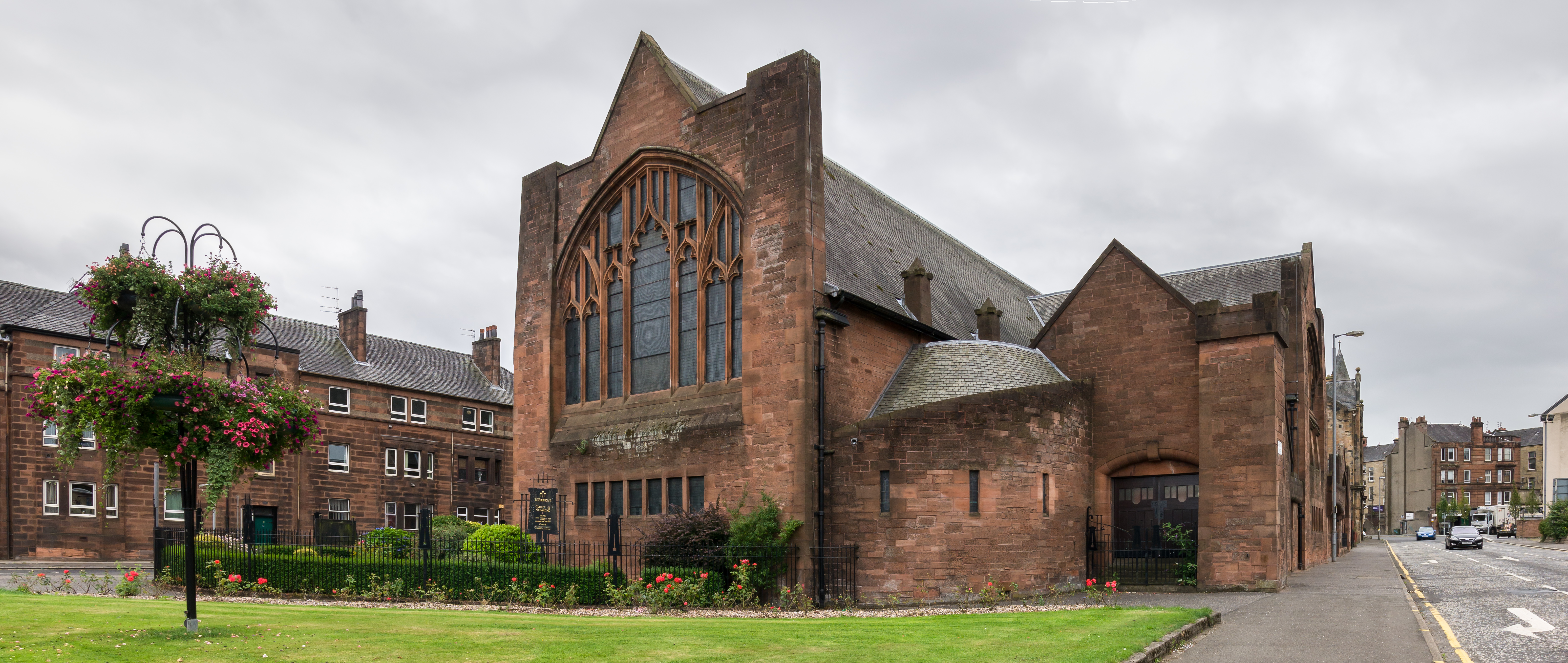 St Matthew's Church is an Art Nouveau church designed by WD McLennan and built in 1905-07. This view is from the north east.